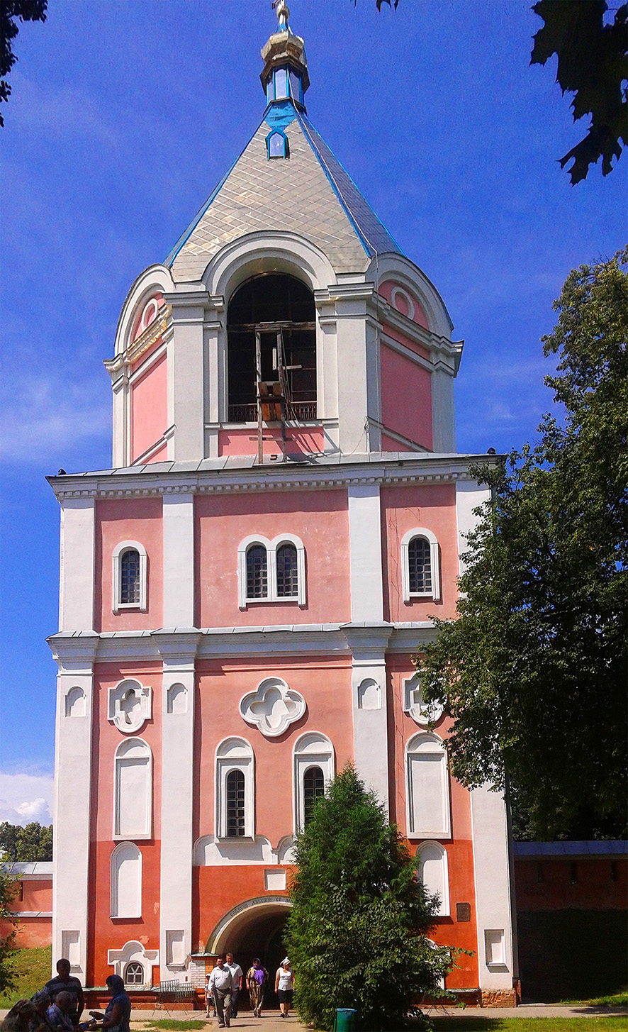 Nicholas church-over-the-gate. Hustynia Holy Trinity Monastery